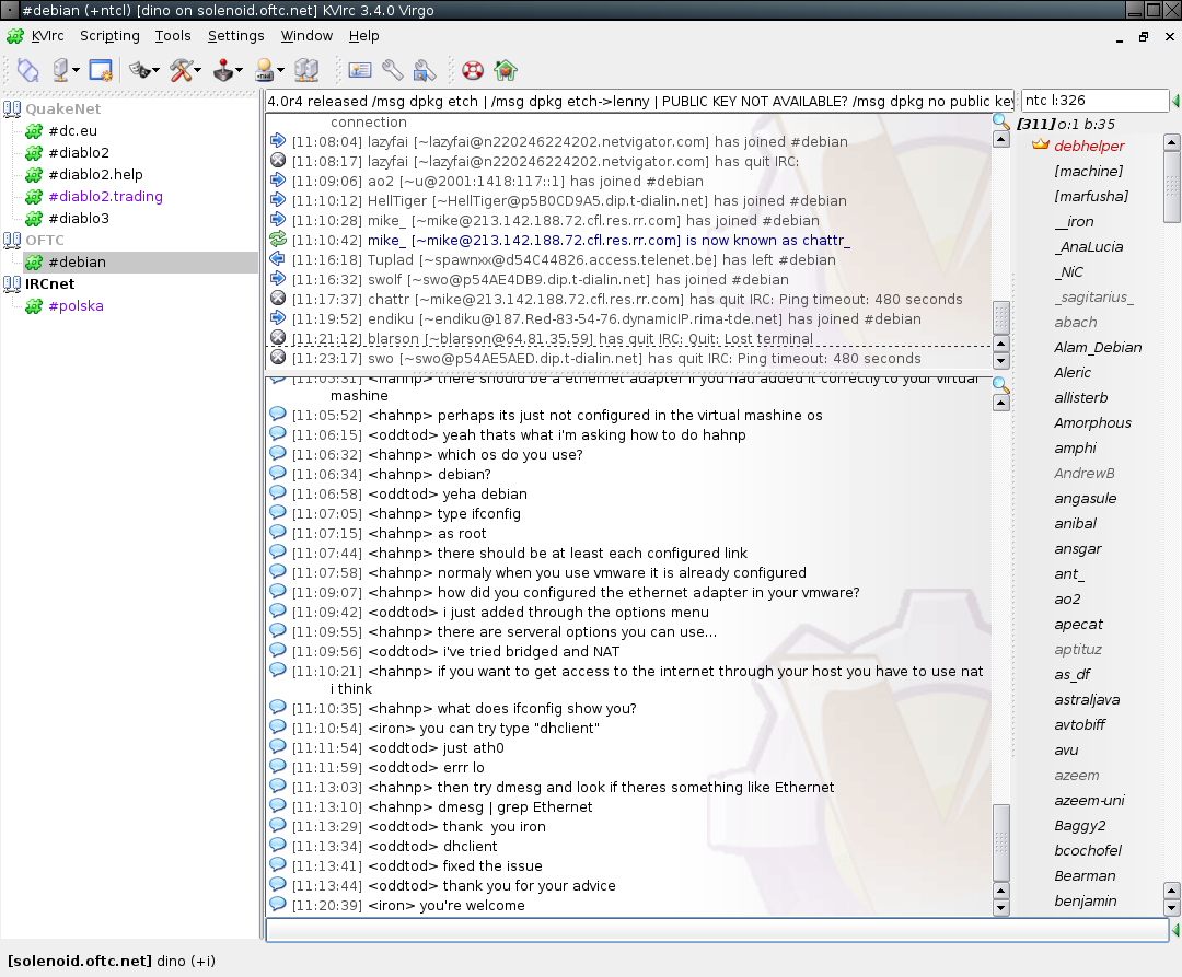 Screenshot of KVIrc 3.4.0 (Fluxbox WM)